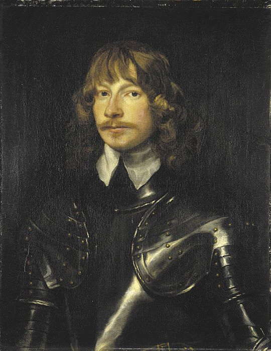 William Dobson, "James Graham, 1st Marquess of Montrose, 1612 - 1650. Royalist", about 1644. Oil on canvas. 75.60 x 58.40 cm